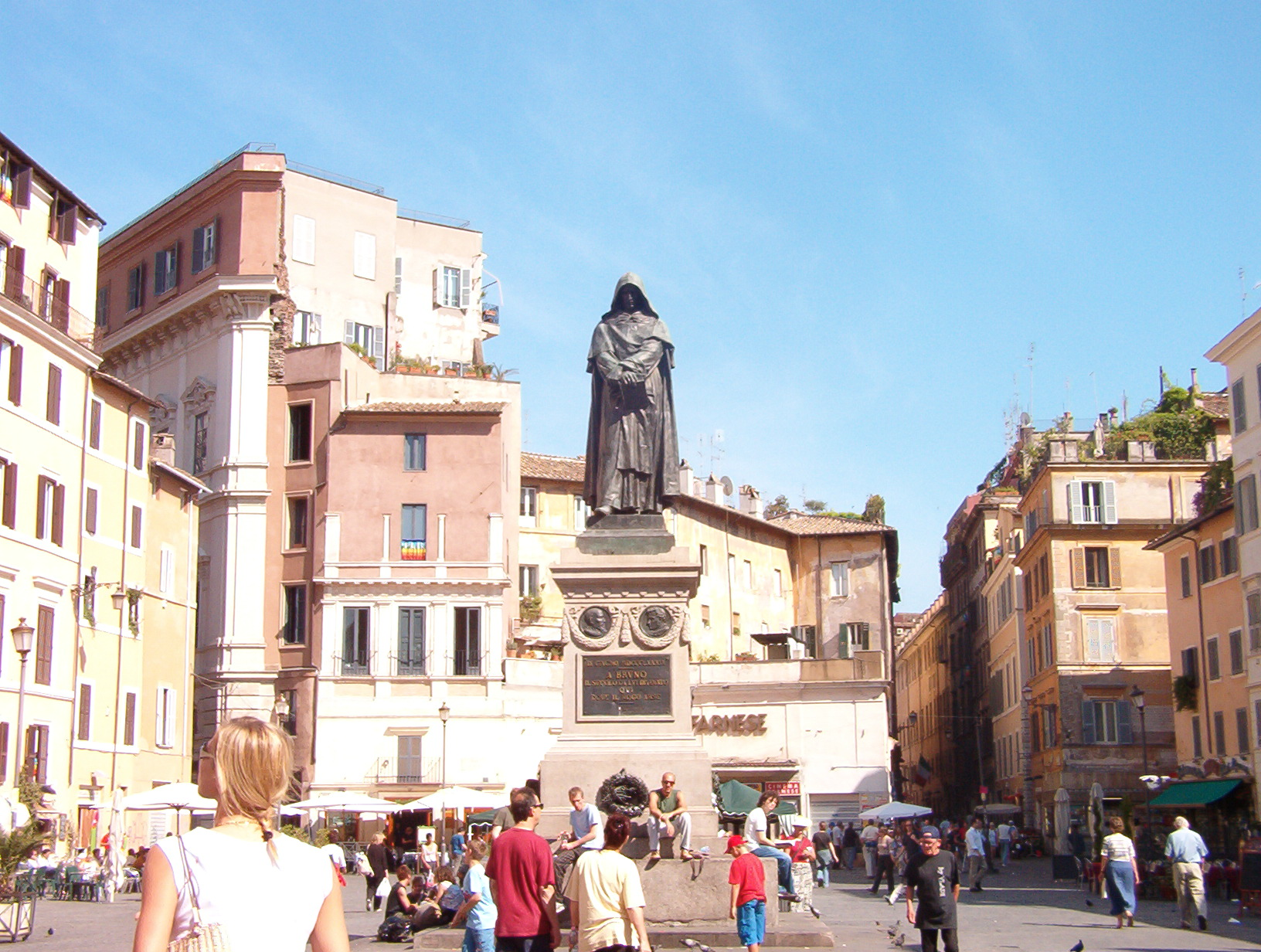 Statue of Giordano Bruno in Campo de Fiori, Rome, Italy. This monument was erected in 1889 by Italian Masonic circles in the site where he was burned alive for opposing the Catholic church authority.